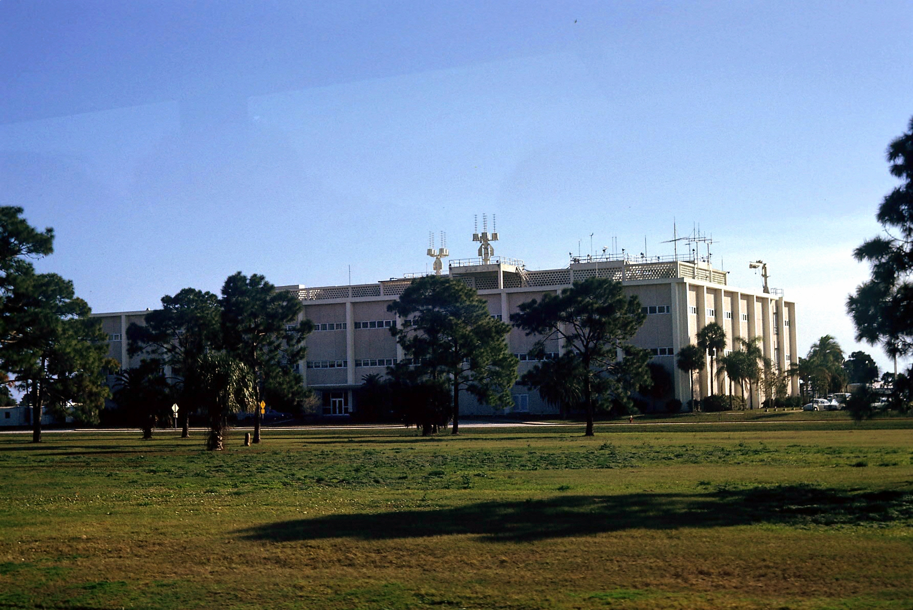 Color photo of the front of the Central Instrumentation Facility at the John F. Kennedy Space Center